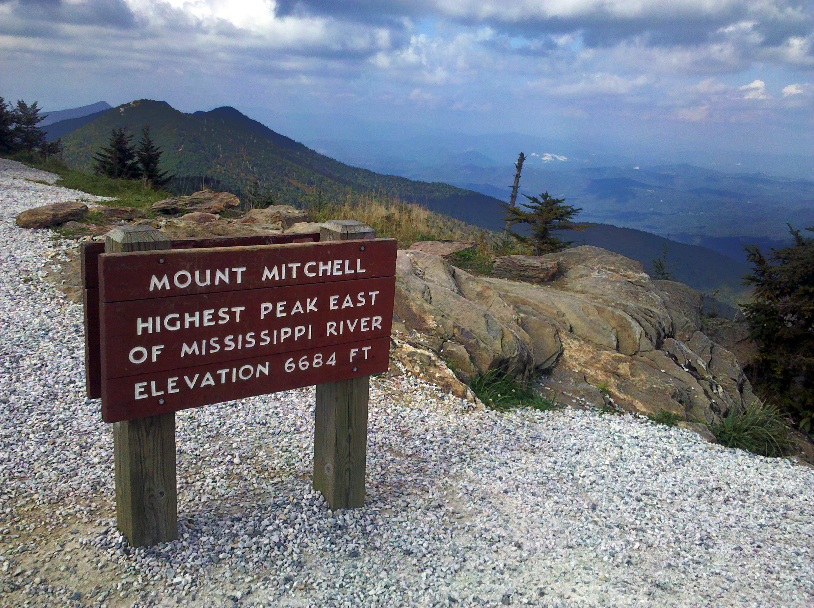 Sign at summit of Mount Mitchell. Mount Craig in background.